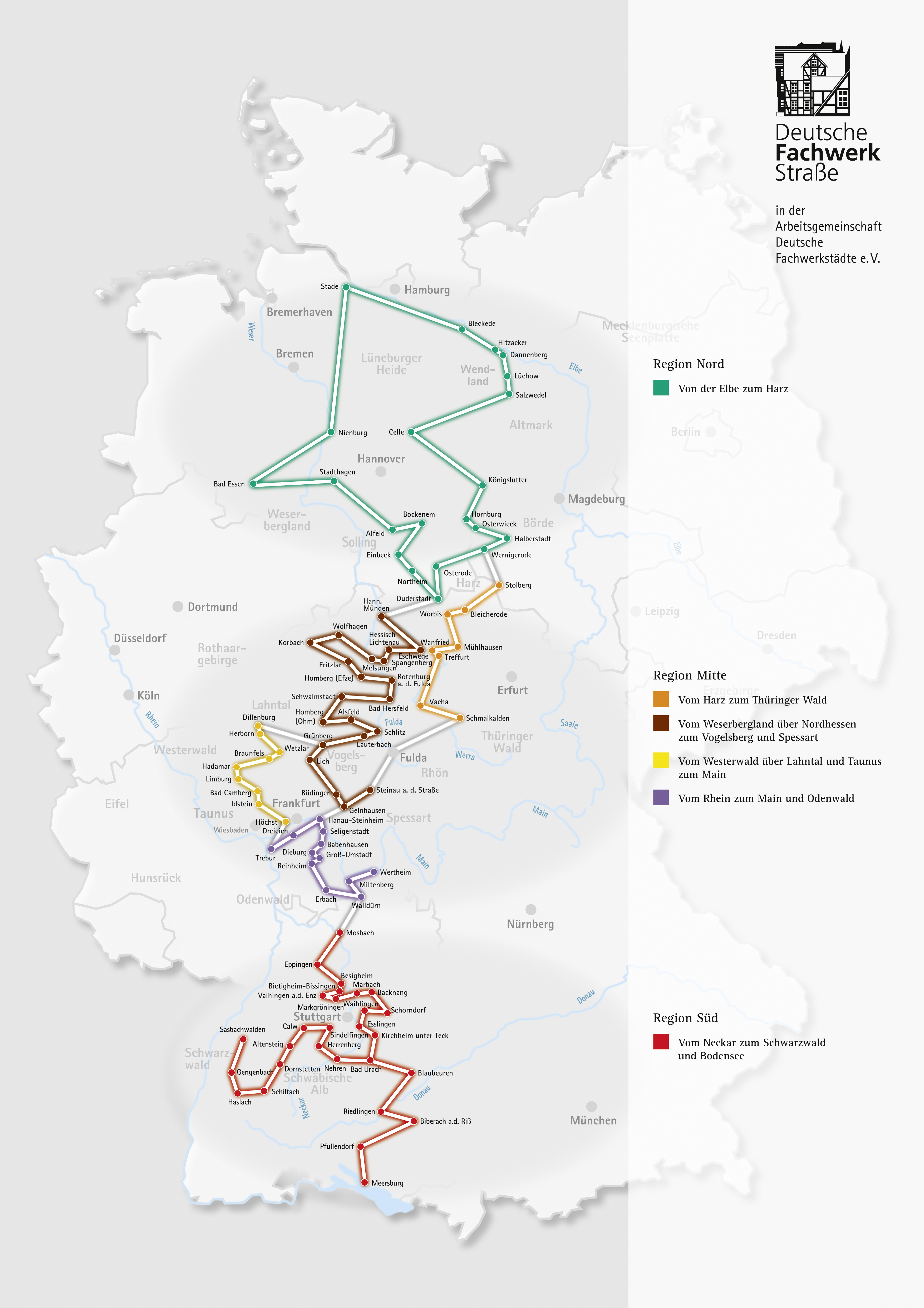 Complete overview of the seven regional routes of the German Half-Timbered House Road, 2016